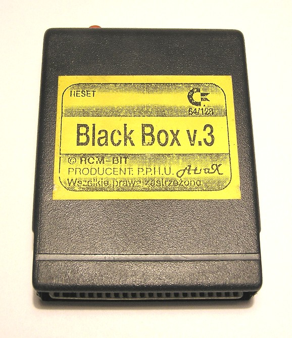 Black Box v.3 cartridge for c64/128. Made in Poland